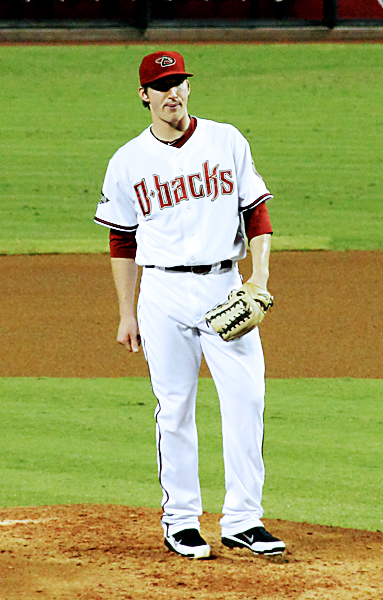 Parker, Phoenix, 2011-09-27